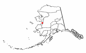 Adapted from Wikipedia's AK borough maps by Seth Ilys.